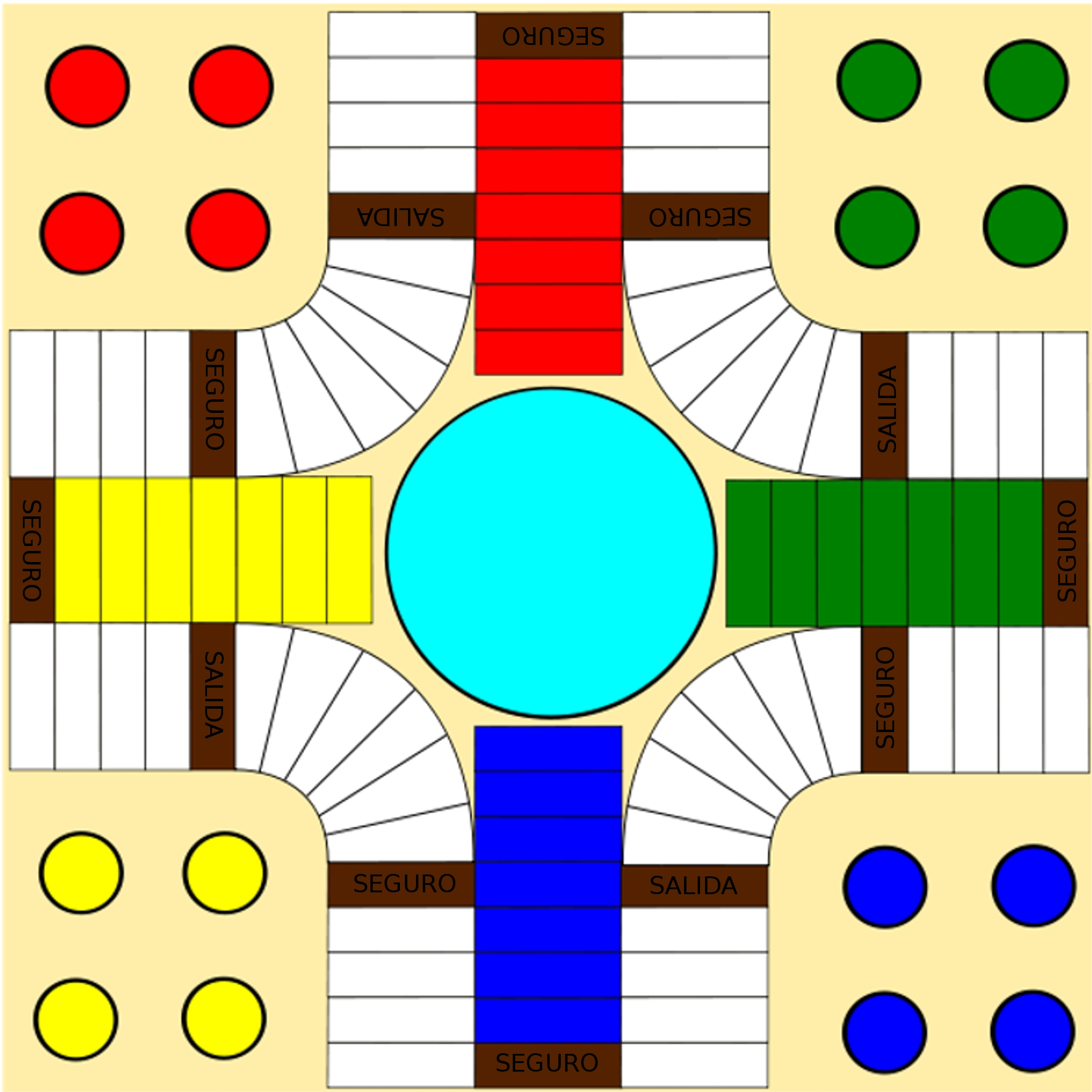 Edited version of a previews image of a Parcheesi board to make it look as the Colombian Parqués